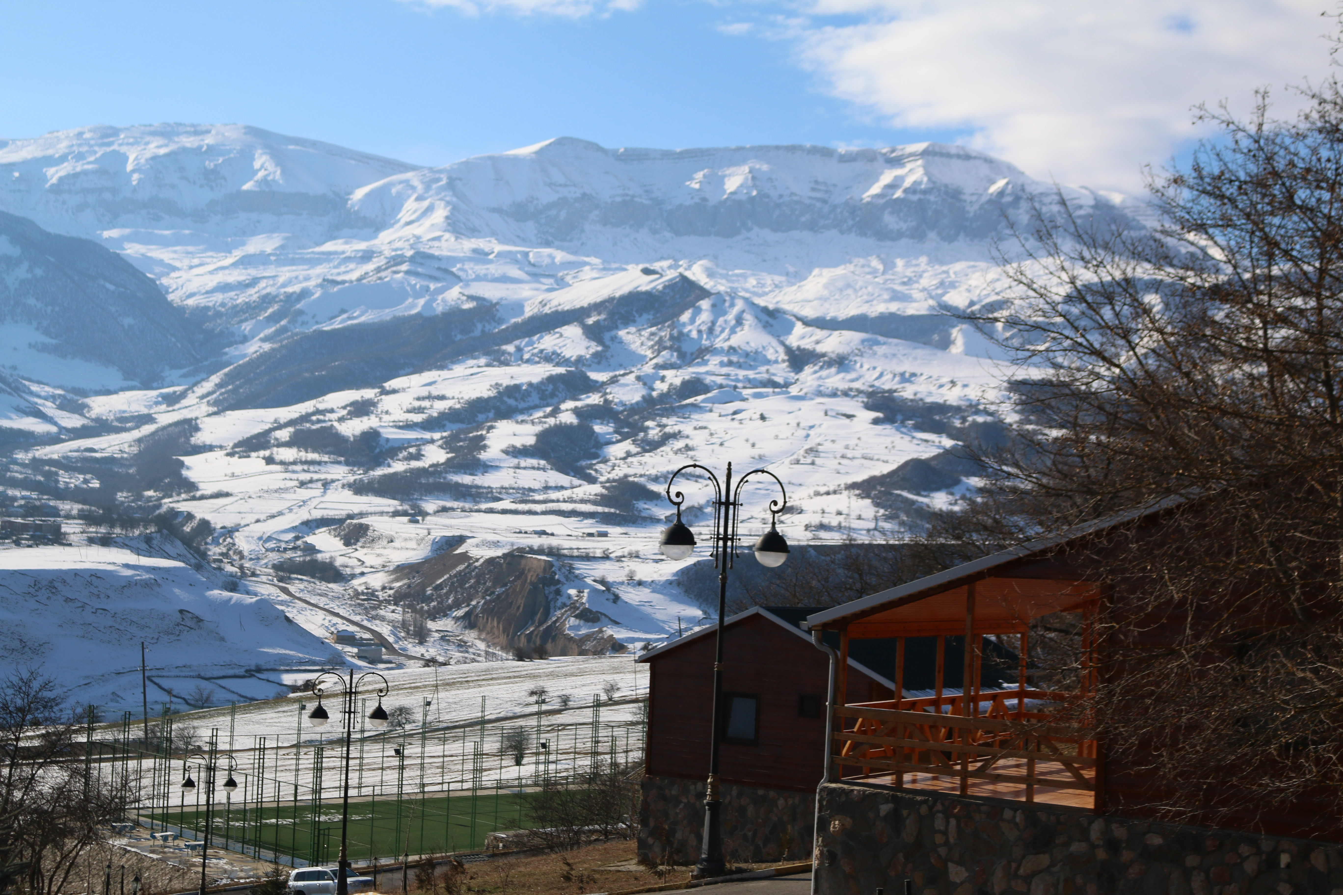 Caucasus Mountains in Gusar District of Azerbaijan. Shahdag National Park 7